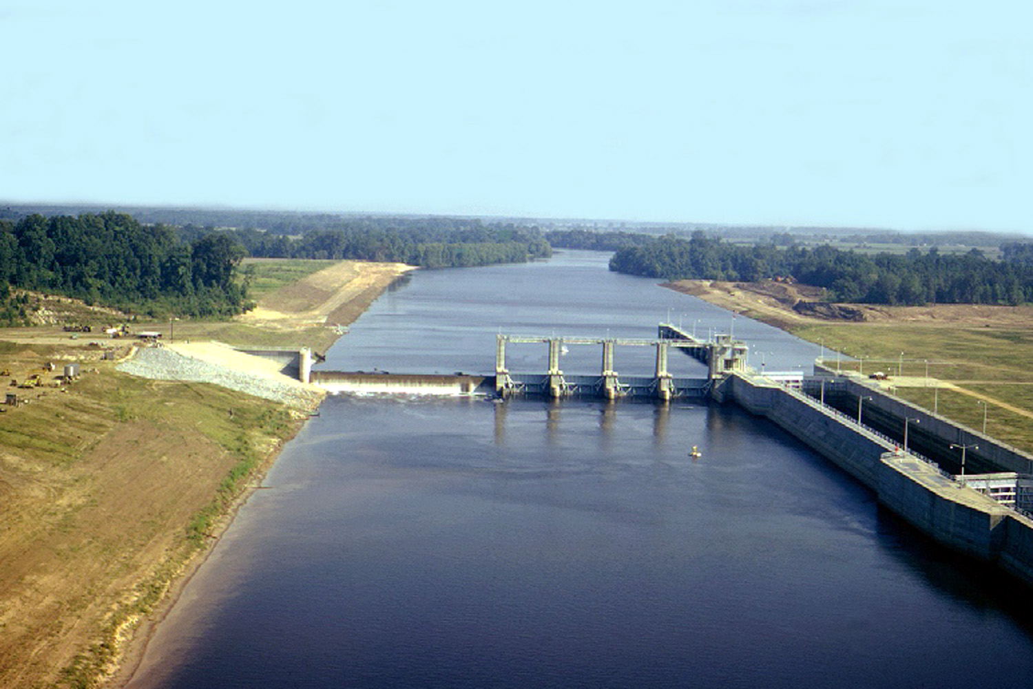 Columbia Lock and Dam on the Ouachita River in Columbia, Louisiana, USA. The U.S. Army Corps of Engineers maintains the locks and dredges the river to maintain a navigation channel on the river.